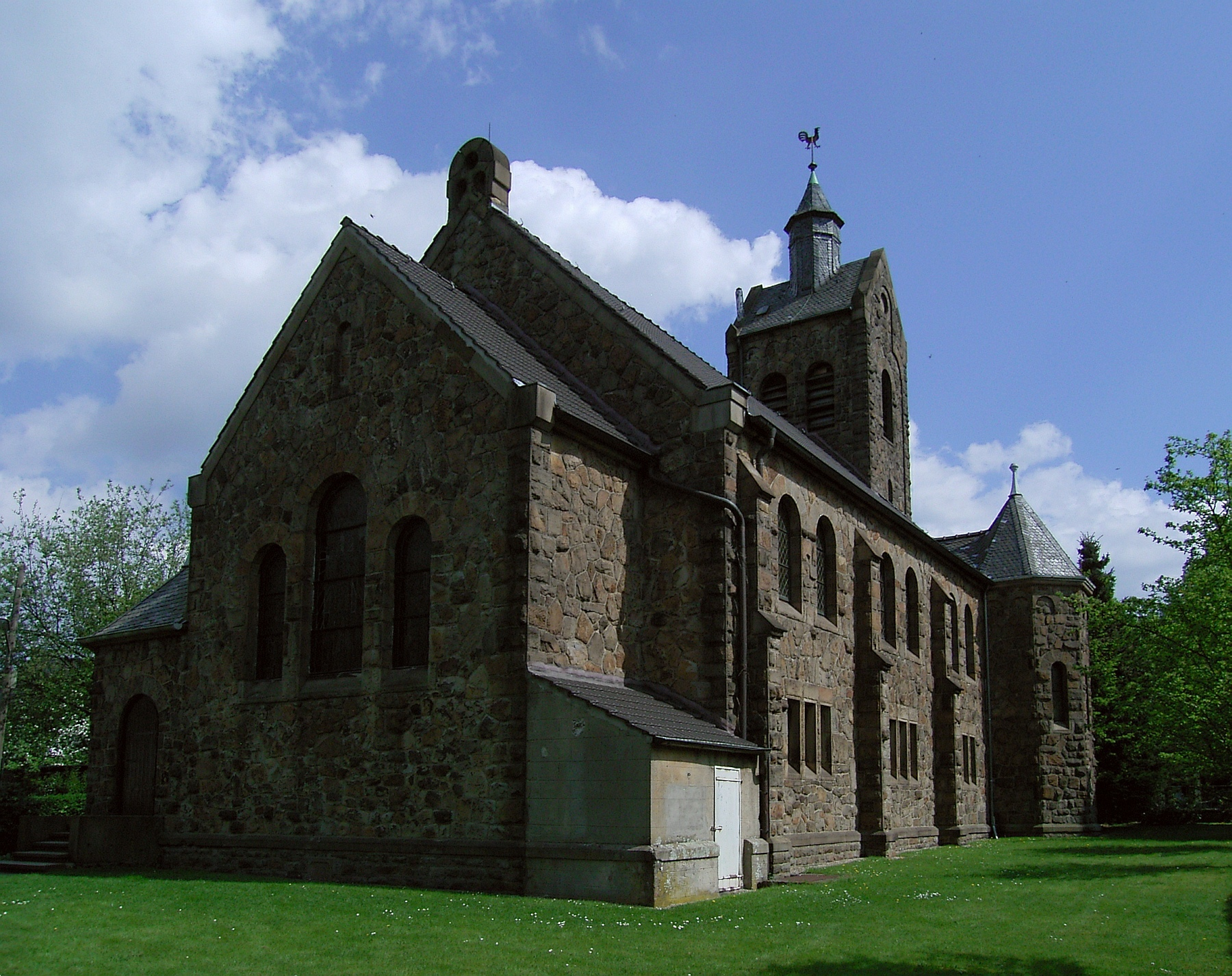 Ev. Kirche in Witten-Stockum This is a photograph of an architectural monument.